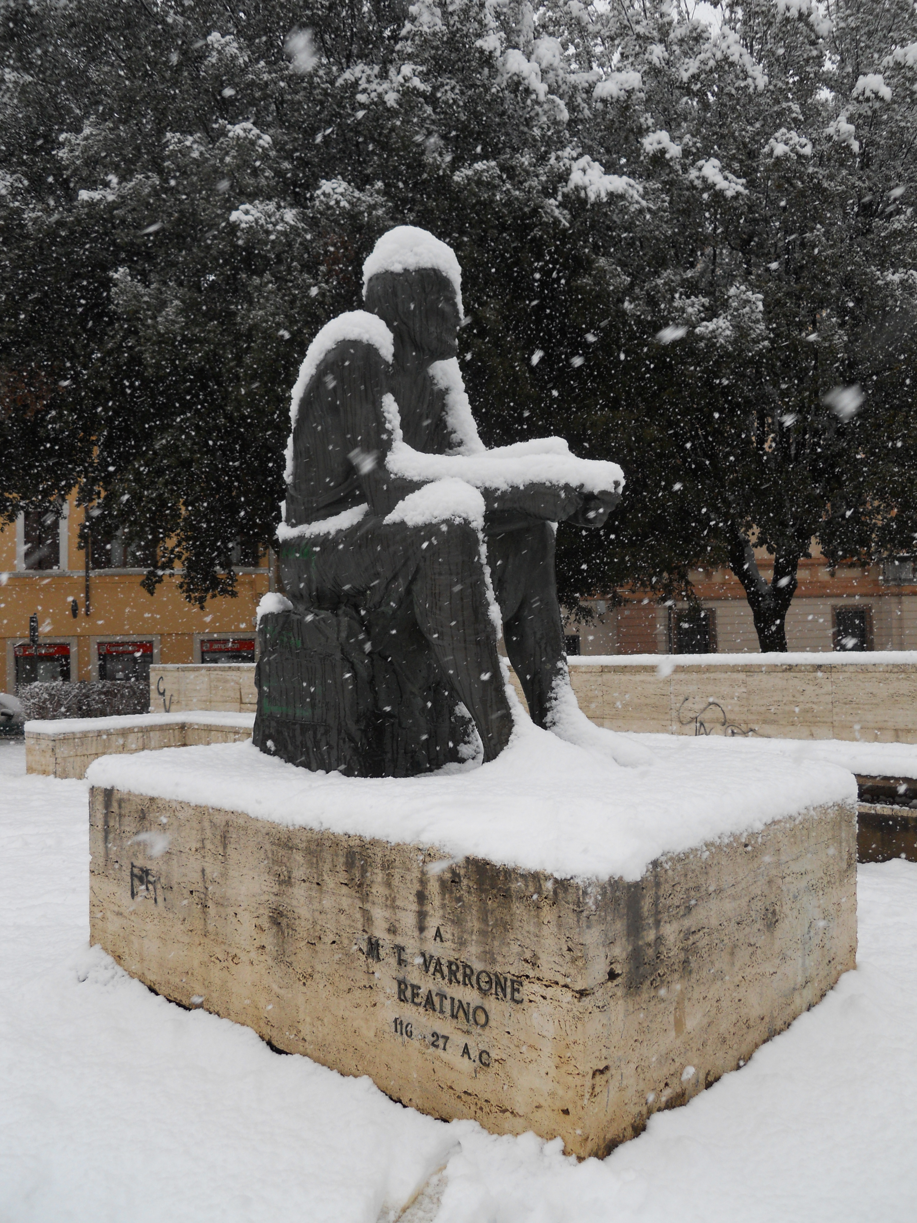 Statue to Marcus Terentius Varro during 3rd february 2012 snowfall - Rieti, Italy